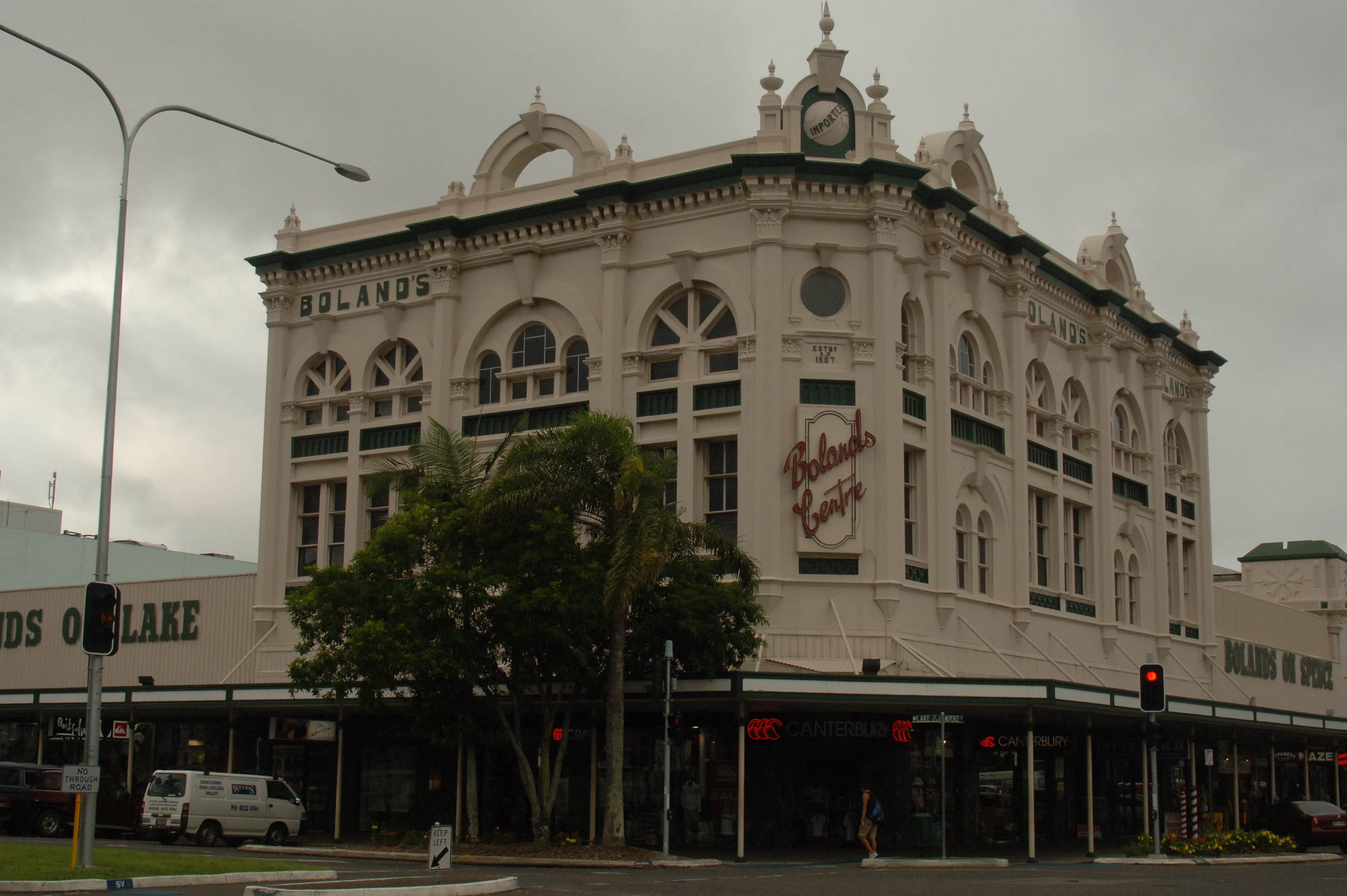 HERITAGE BUILDING DATES FROM 1887. LOCATED IN CAIRNS, QUEENSLAND